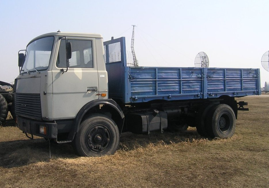 MAZ-5337 in Technical museum Togliatti